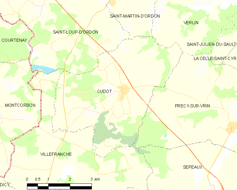 Map of French municipality Cudot